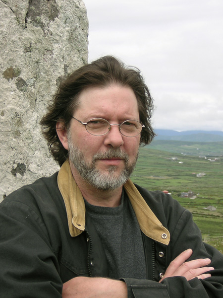 Palencar in Ireland, 2004.